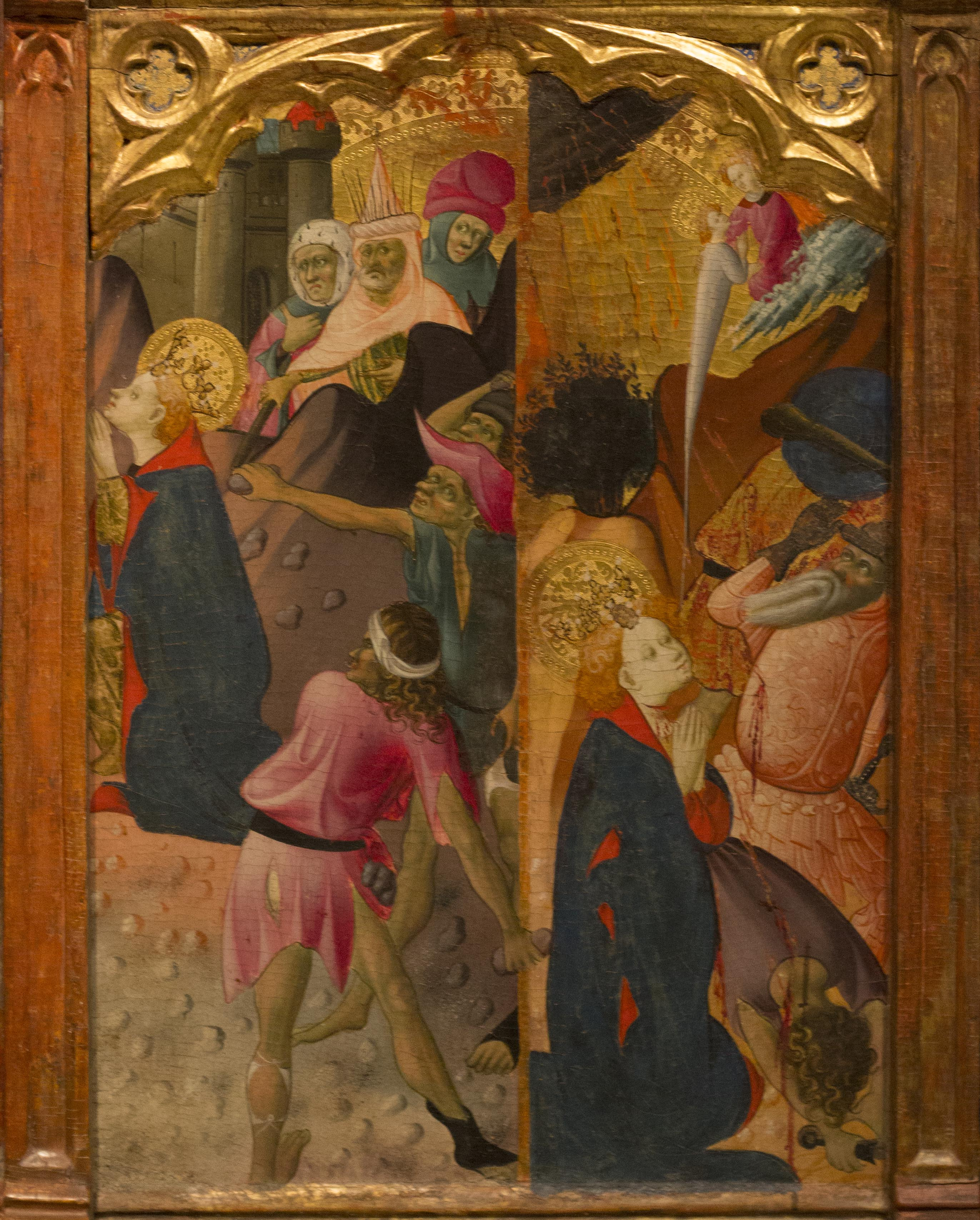 Panel depicting the stoning and beheading of Saint Barbara